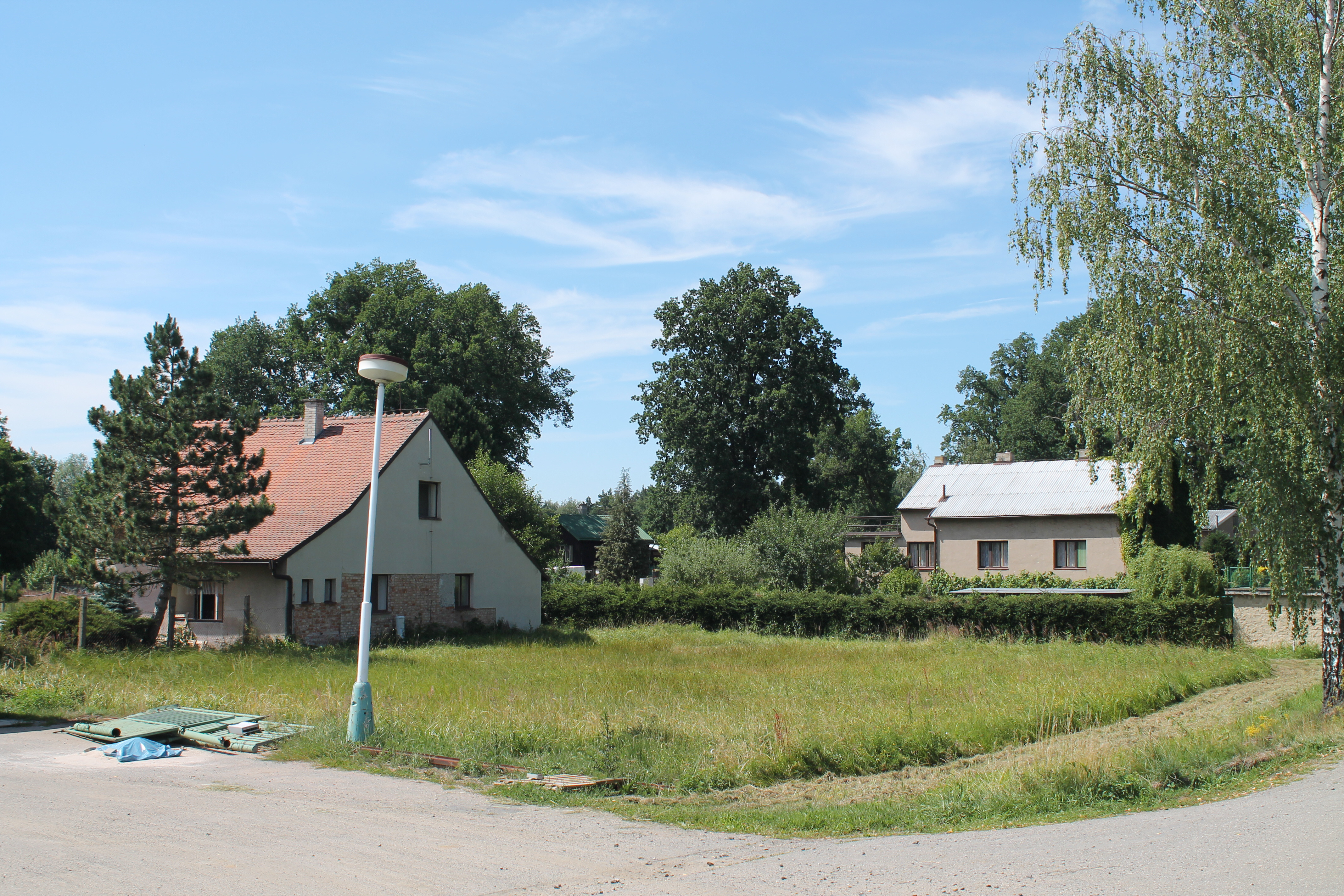 Smrček-Na sádkách, Smrček, Chrudim District, Czech Republic